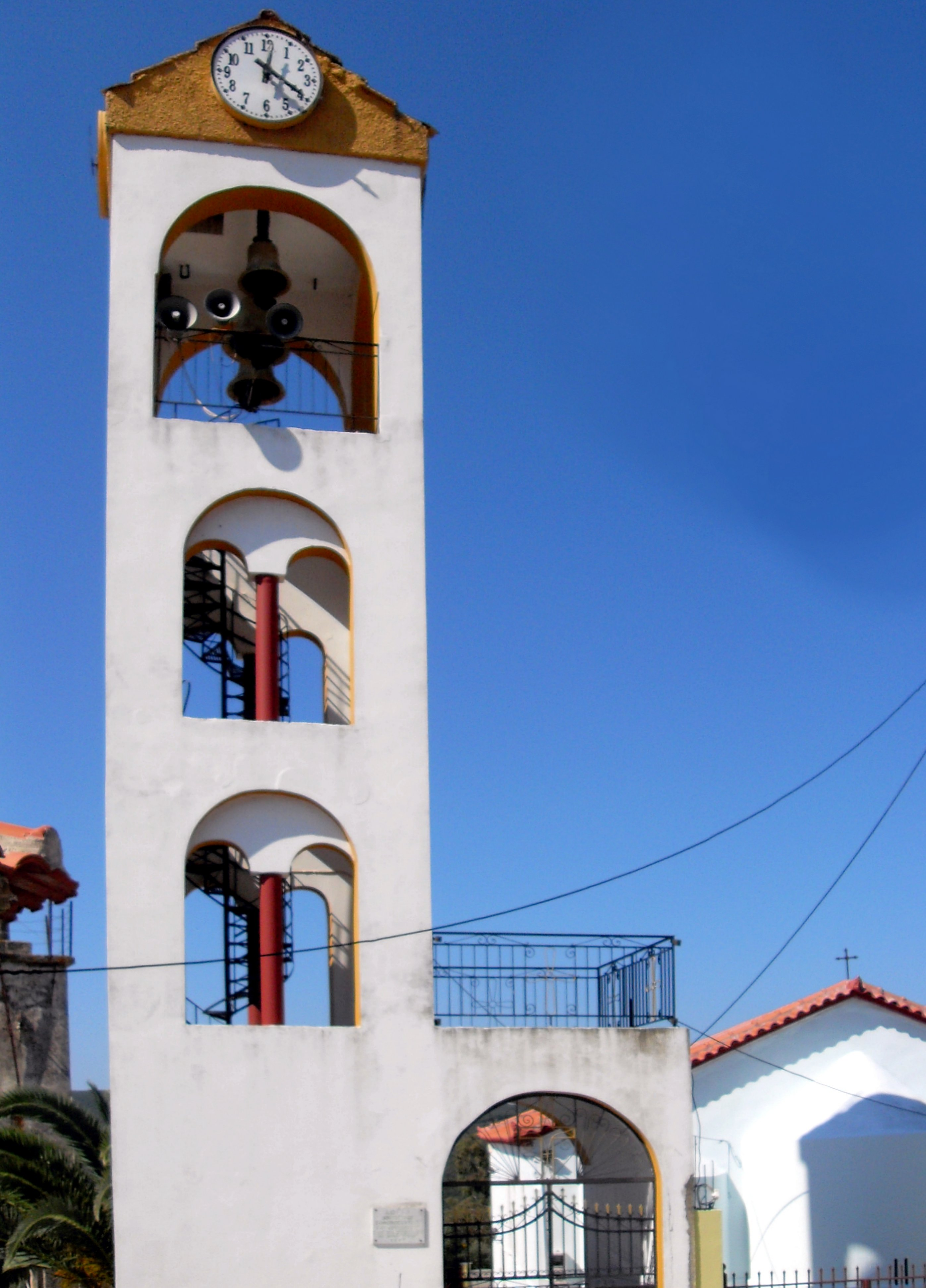 Church of Agios Nikolaos, municipality of Pylos, community of Pylos-Nestor